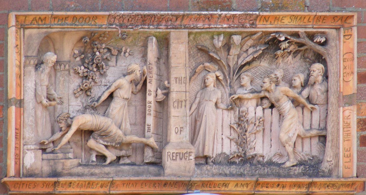 The City of Refuge - George Tinworth for Doulton & Co